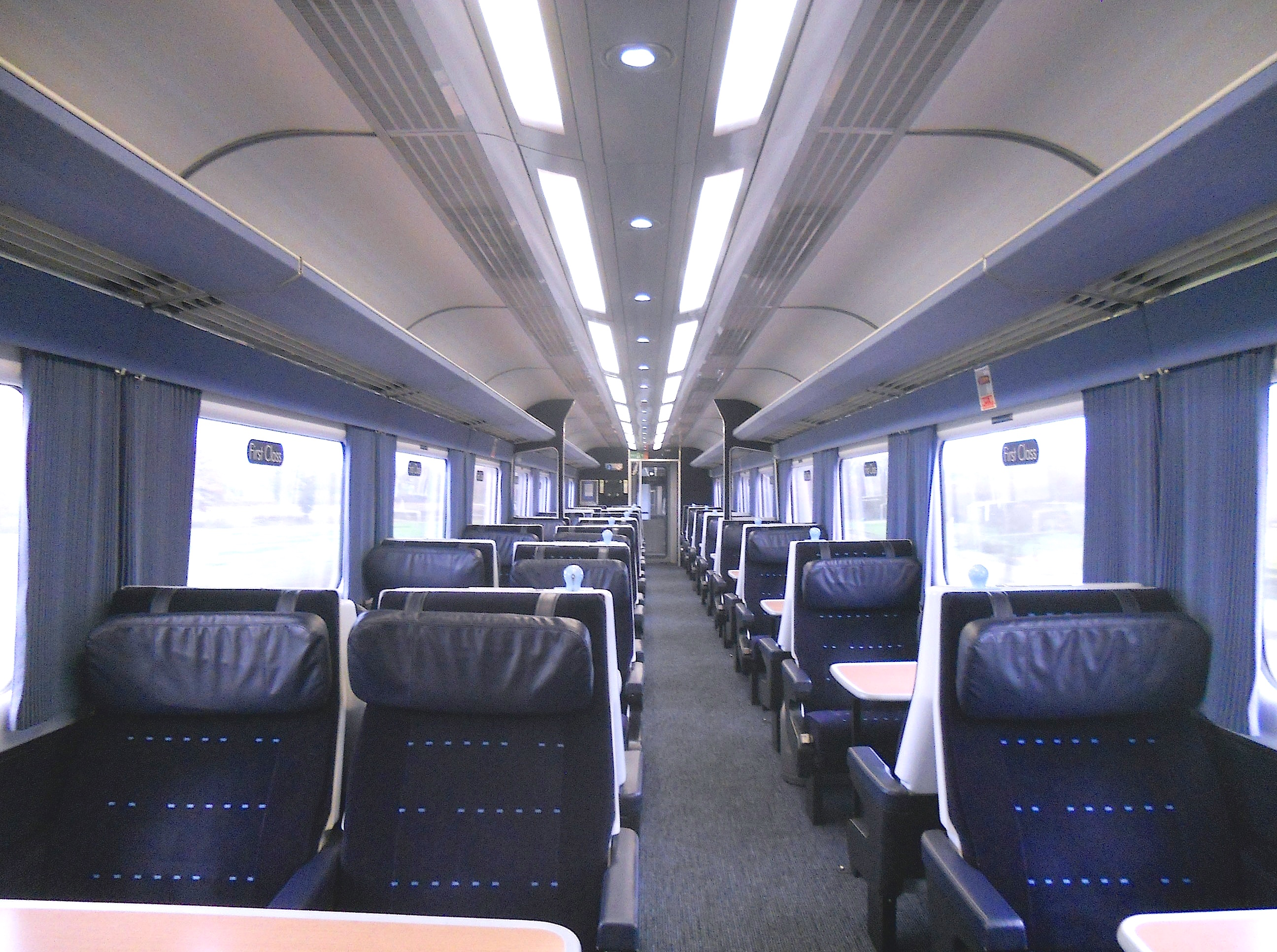 The interior of an East Midlands Trains refurbished Mark 3 Trailer First